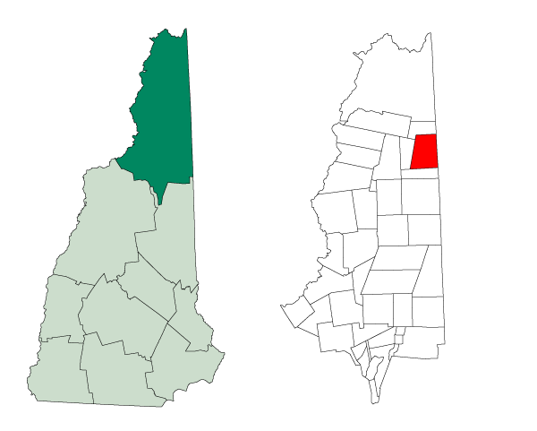 Map of a municipality in Coos County, New Hampshire